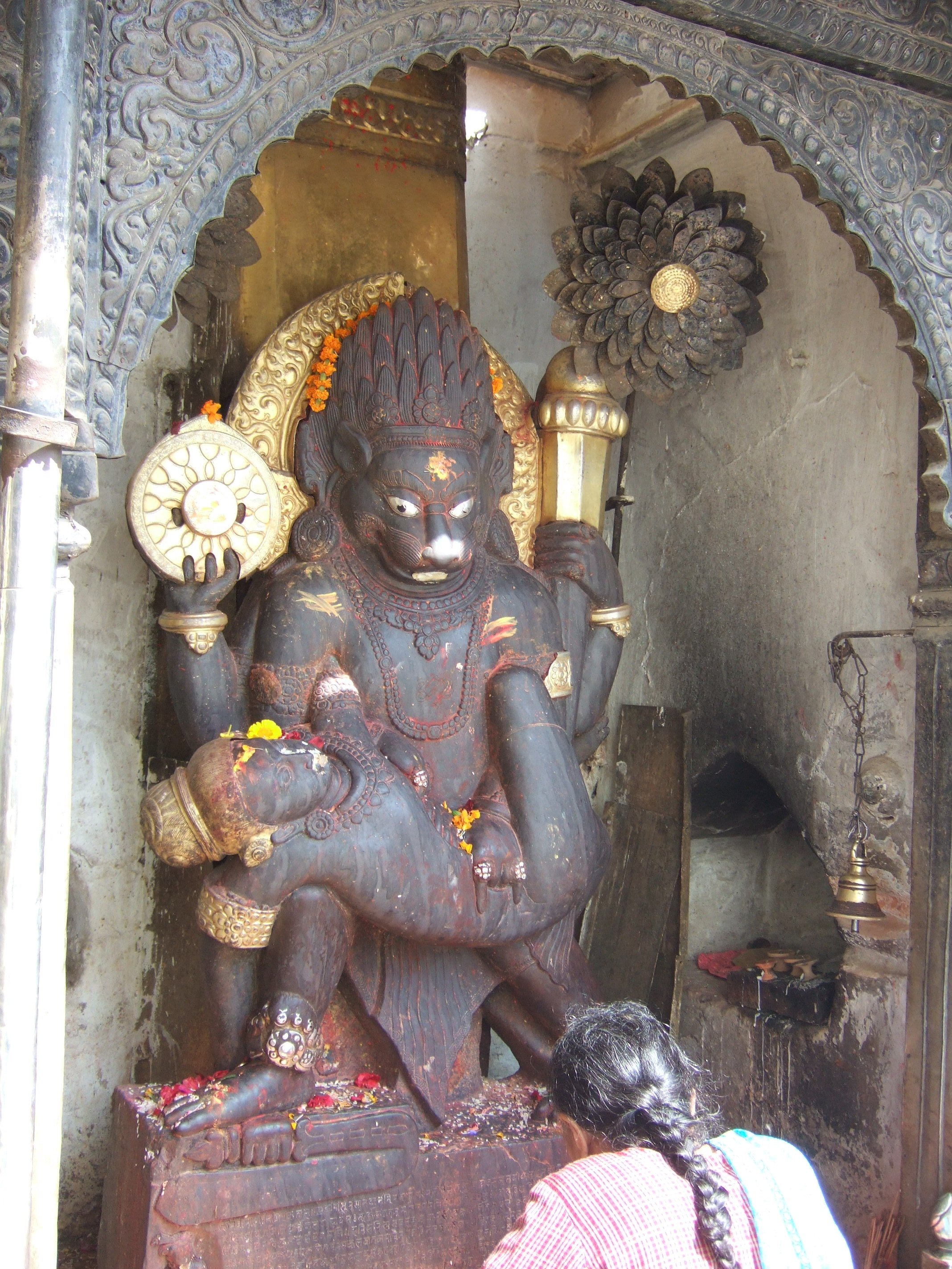 Narasimha killing the demon Hiranyakashipu, Kathmandu, Hanuman Dhoka